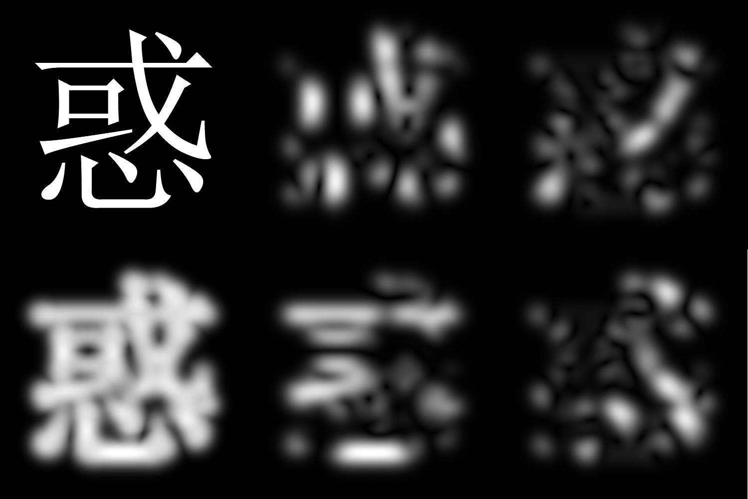 Use of a Gabor filter for Chinese OCR. Wavelength = 35 pixels. Top left: Original Chinese character 惑 (pinyin huò). Top middle: Orientation = 0 degree. Top right: Orientation = 45 degree. Bottom middle: Orientation = 90 degree. Bottom right: Orientation = 135 degree. Bottom left: Superposition of all four orientations.